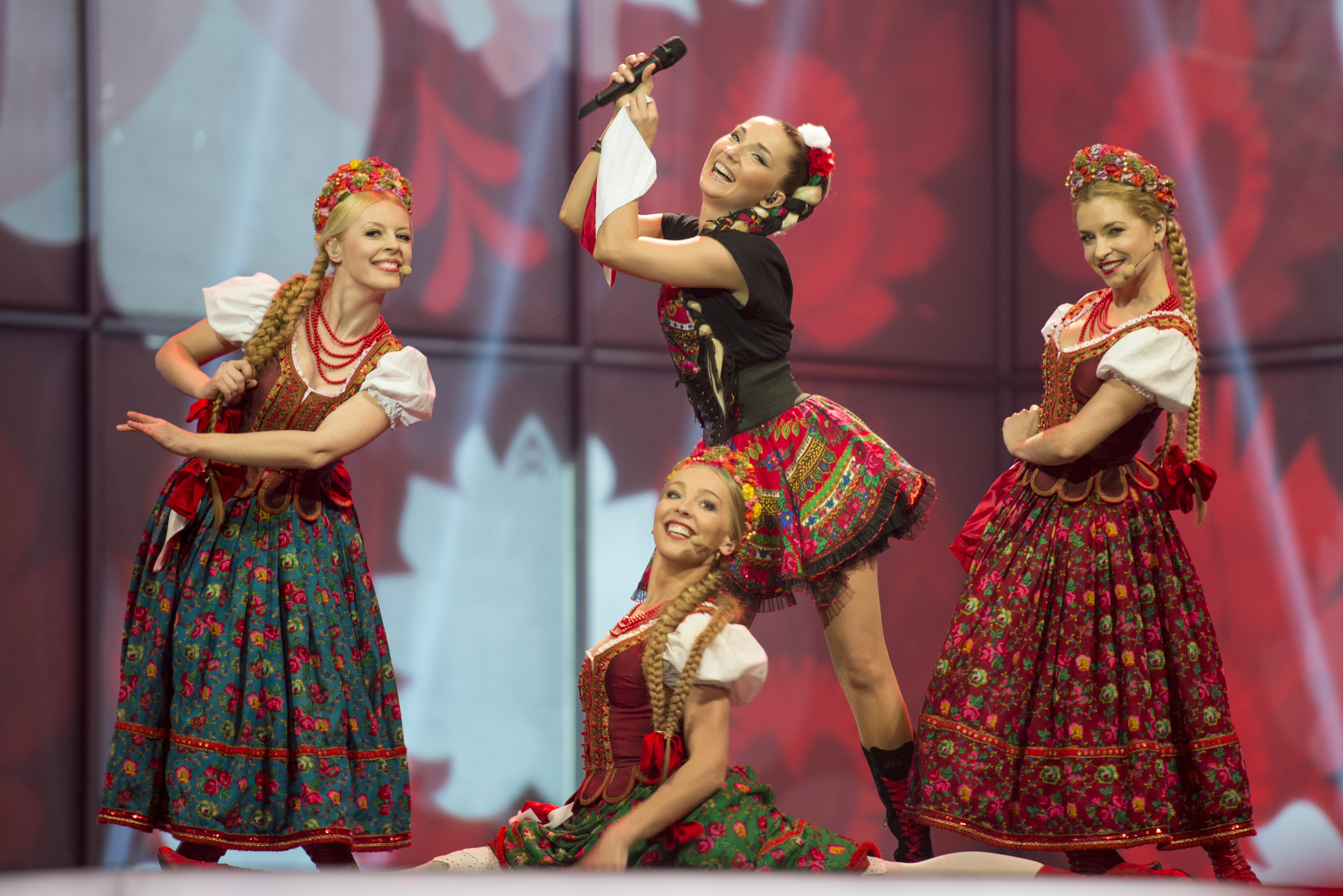 Donatan and Cleo representing Poland with the song "My Słowianie" during the first dress rehearsal of the second semi final of the Eurovision Song Contest 2014 Copenhagen. (Help translate this text)